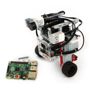 Balancing robot made of the BrickPi3, Raspberry Pi, and LEGO Mindstorms Parts.